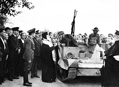 British soldiers receive a blessing from the Bishop of Hania, Crete (December 1940).